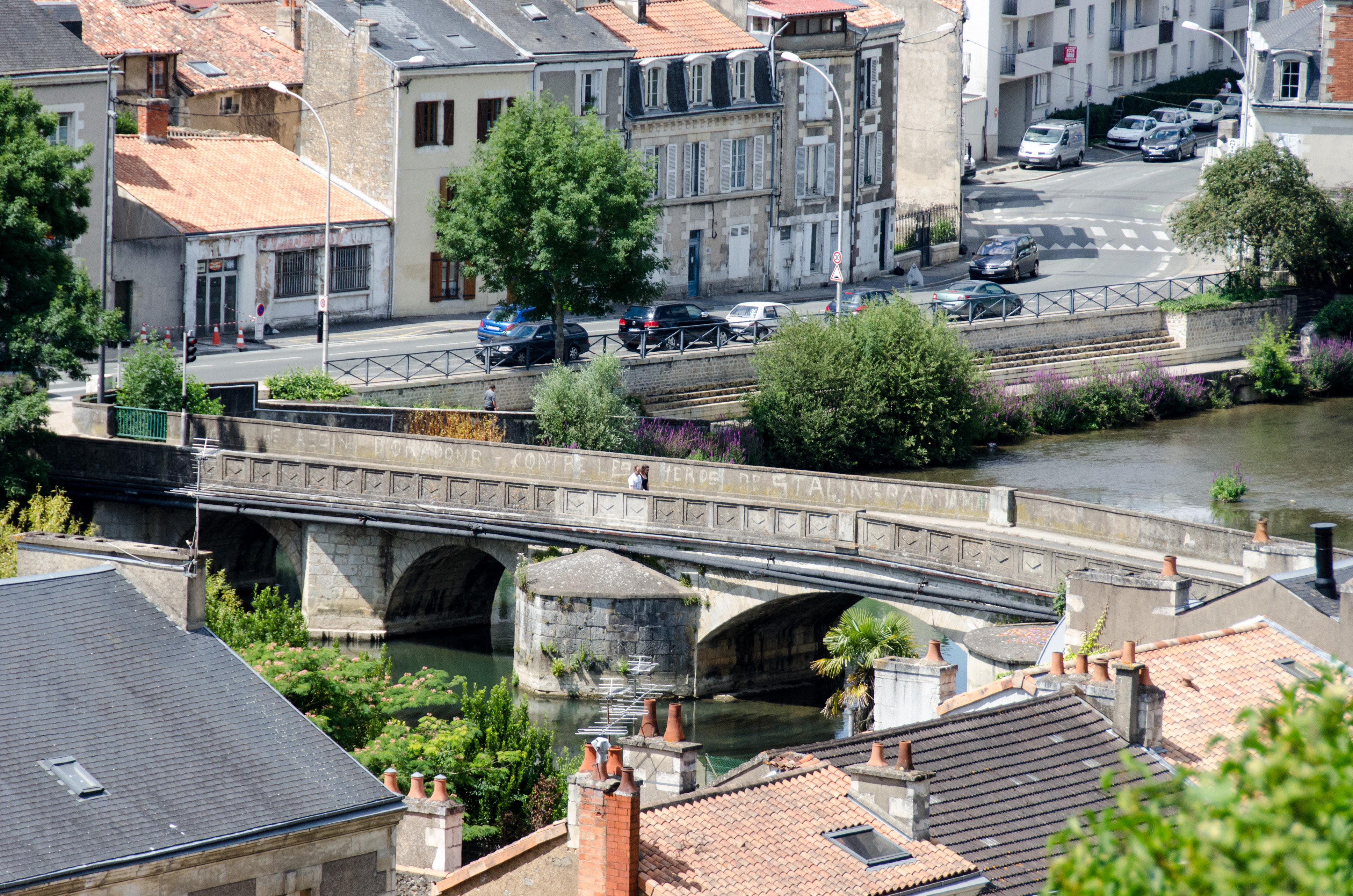 Pont Joubert in Poitiers, shot from Boulevard Coligny.